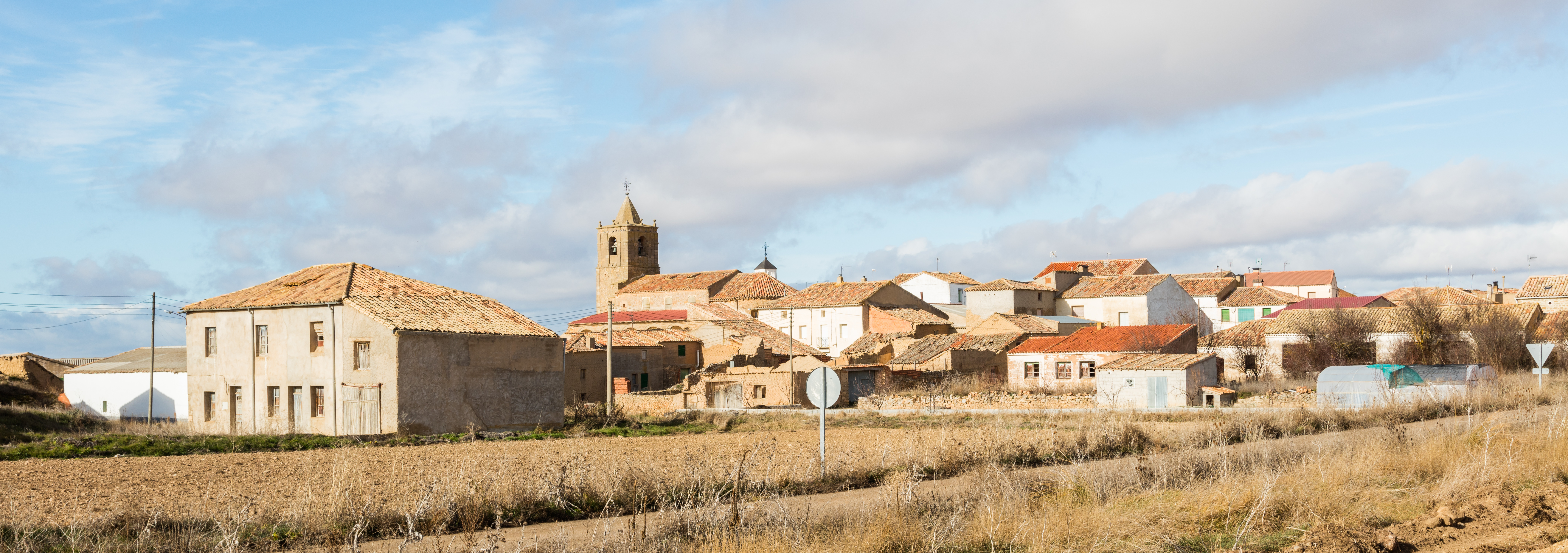 Ledesma de Soria, Soria, Spain